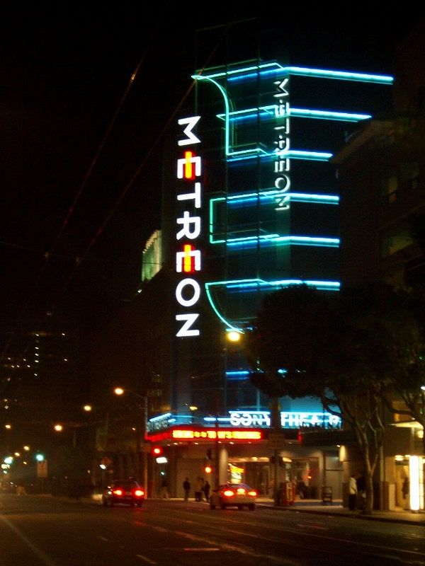 Sony Metreon at night